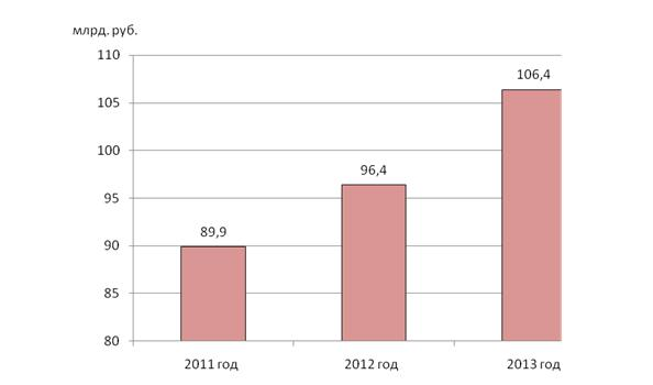 Volume of products and services of big and medium-sized enterprises in Izhevsk in 2011–13